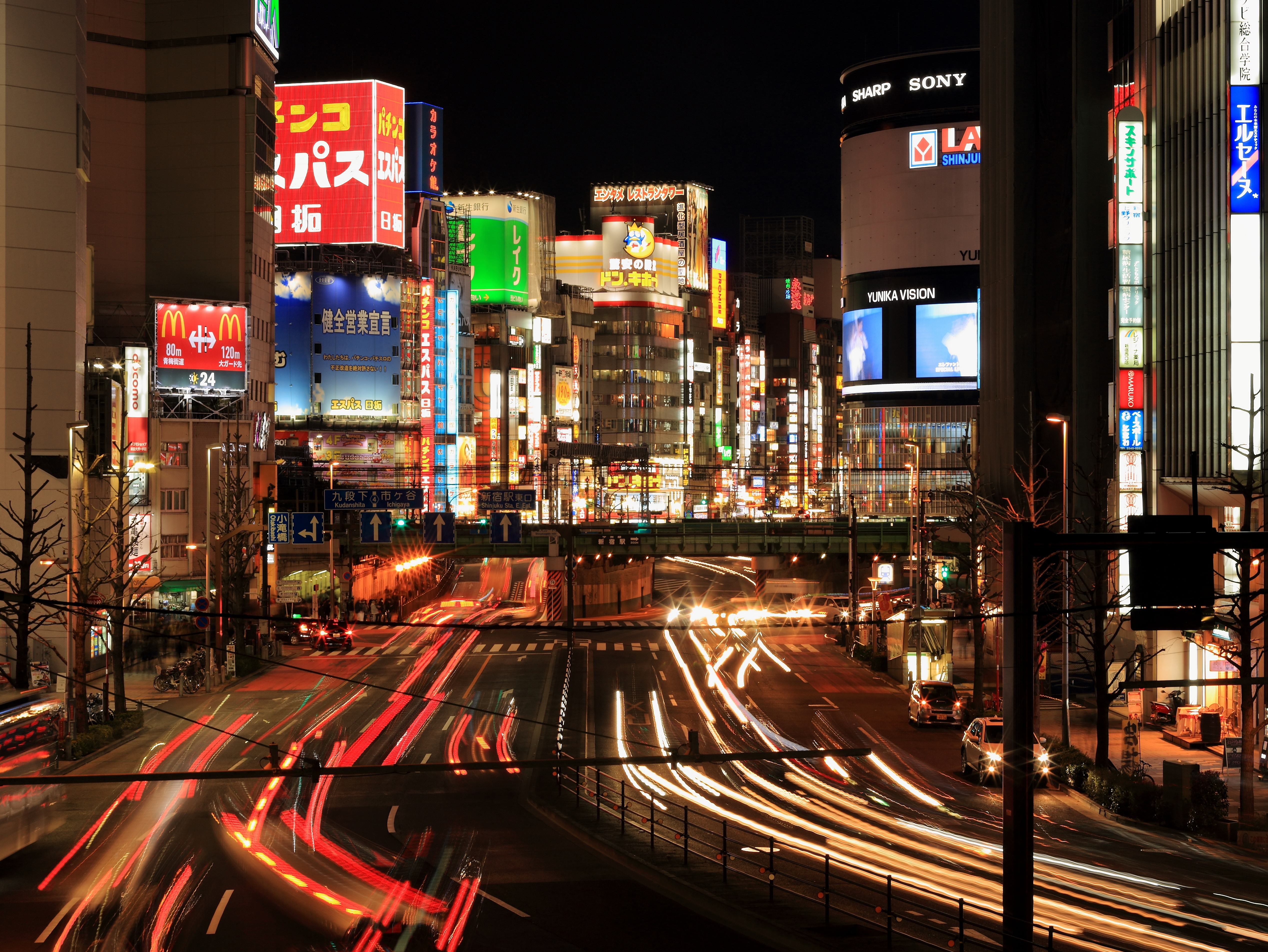 Shinjuku, Tokyo, at night: Traffic on Ōme-kaidō